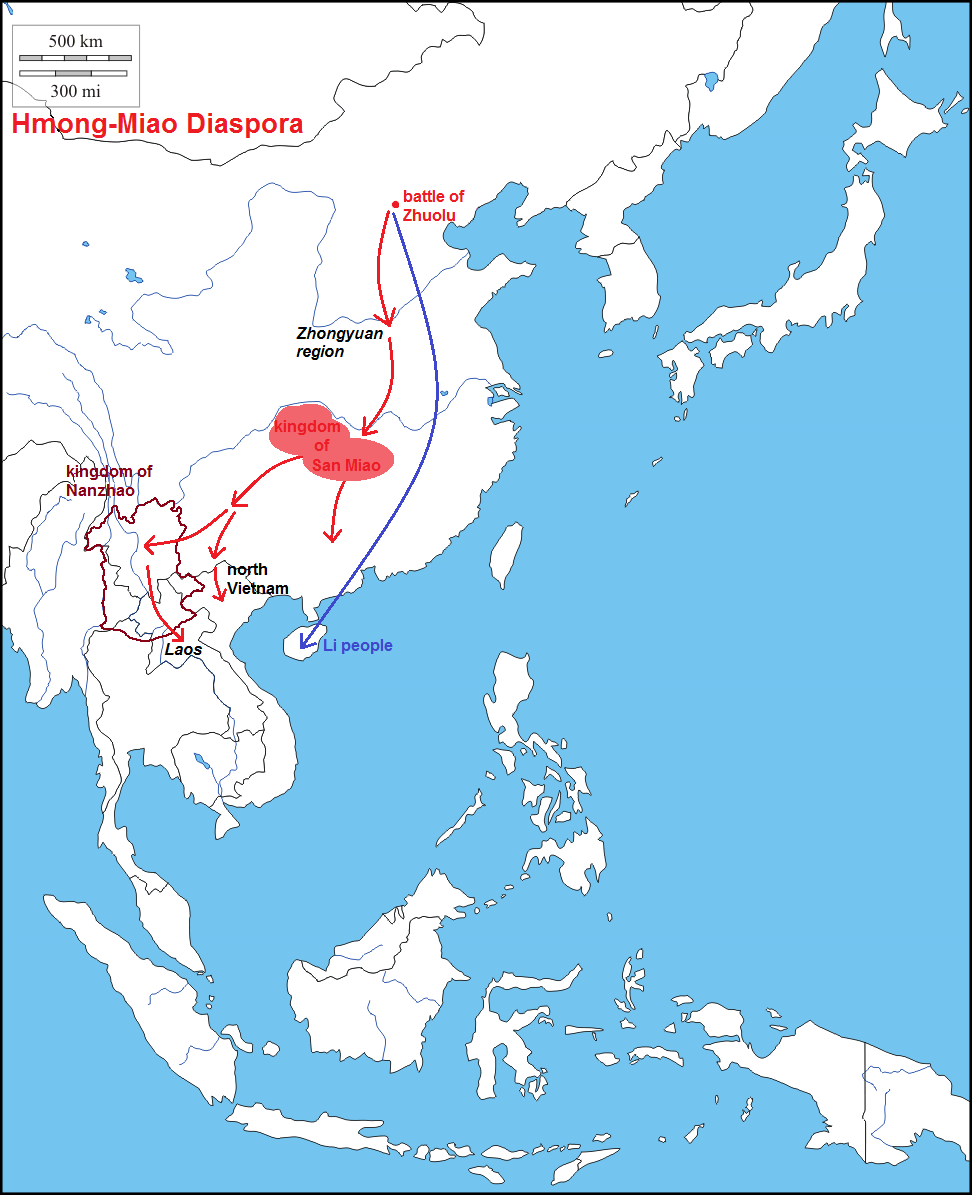 english version The disapora of Hmong in Chinese mythical account.